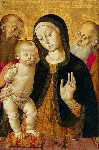 Madonna with Child and Two Hermit Saints